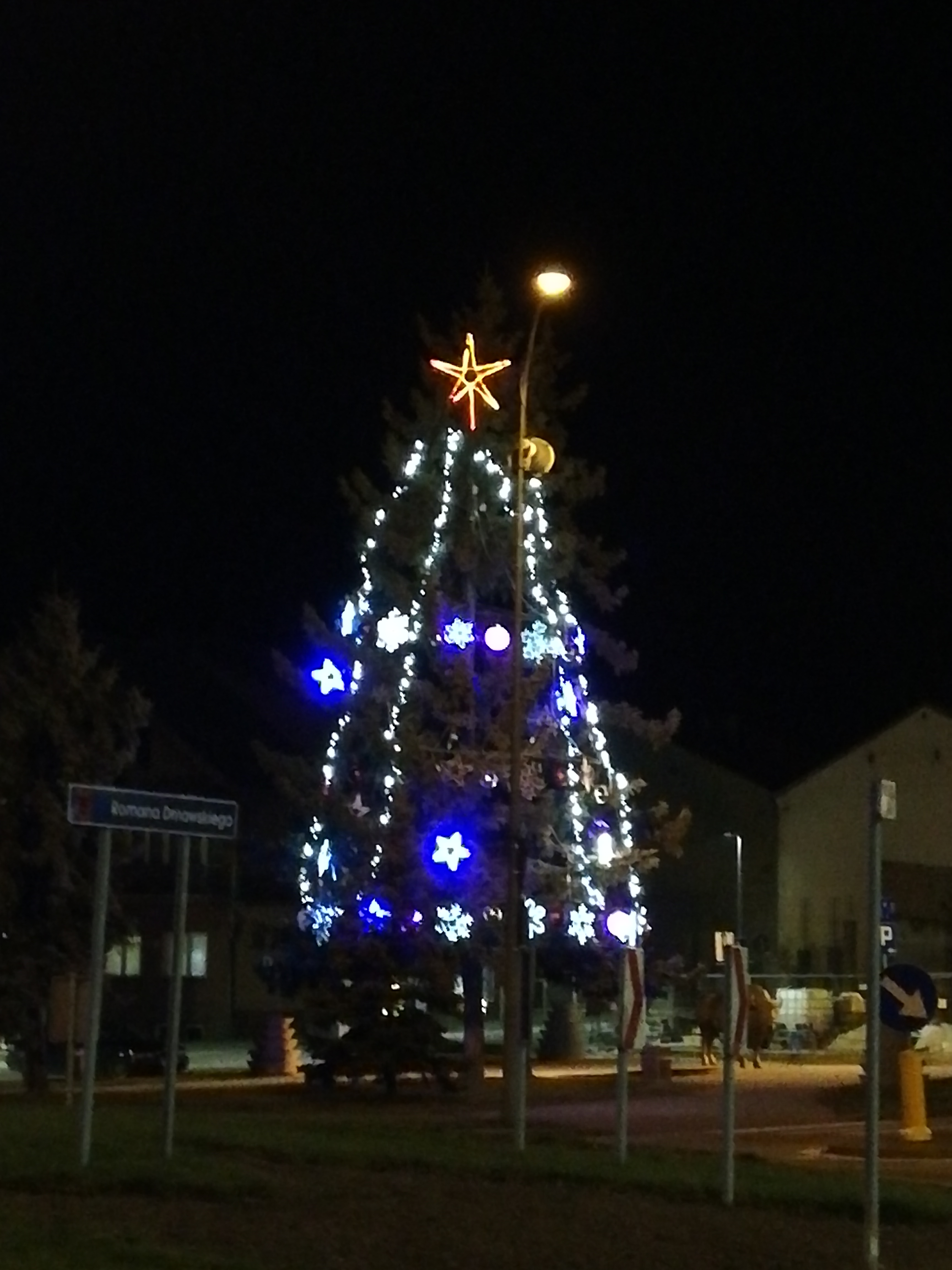 European bizon en Zambrow